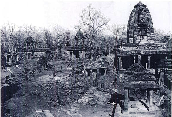 Jain Temples of Deogarh before restoration and modernization. Photo by Archeological Survey of India in 1918.